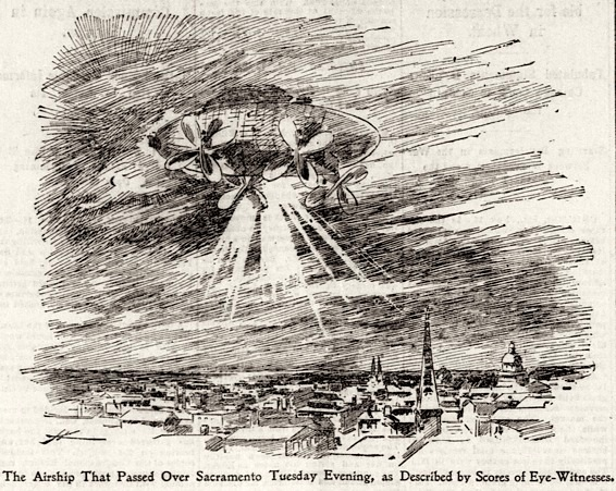 Mystery airship 1896